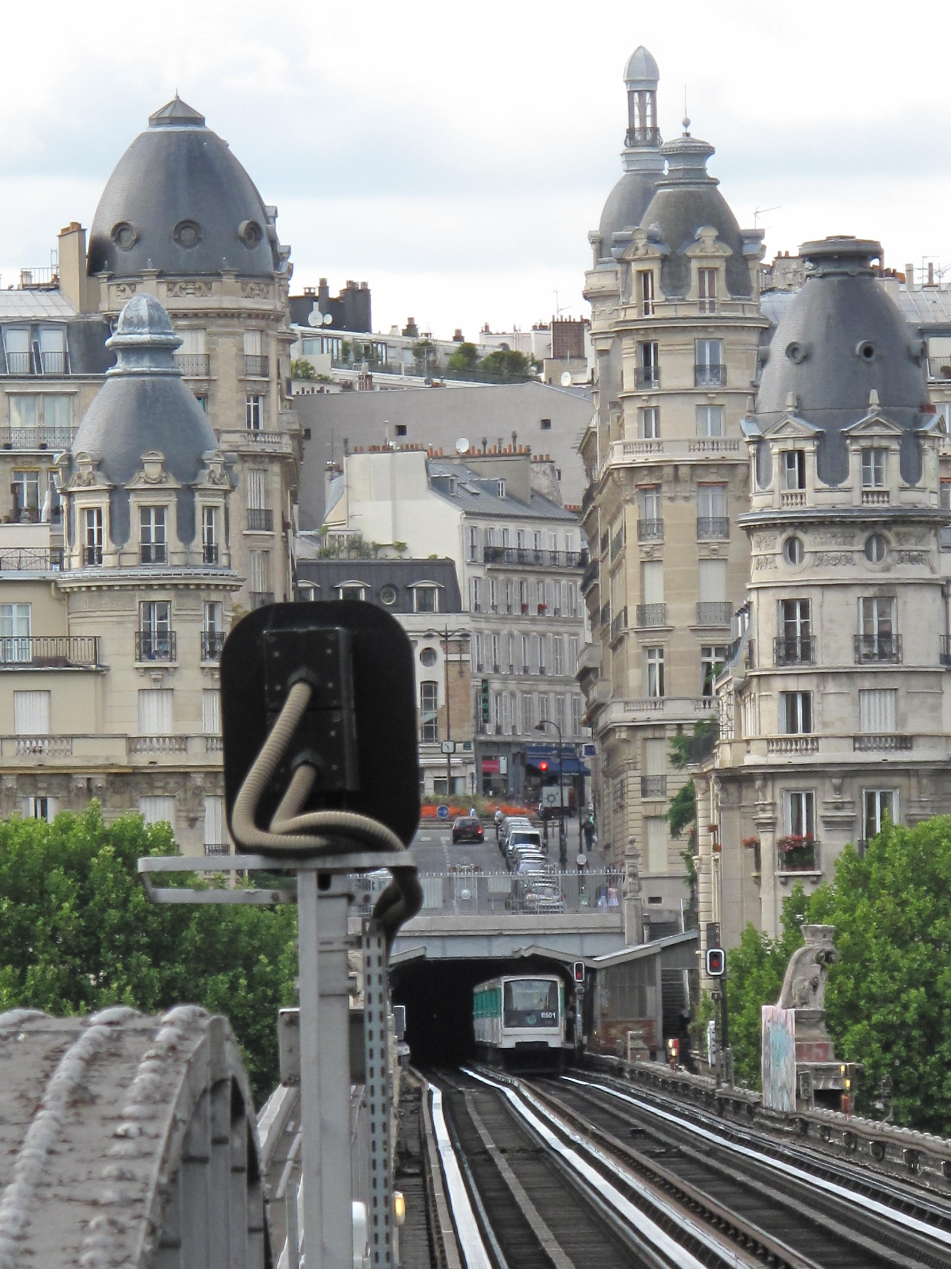 Metro station "Passy" from Metro station "Bir-Hakeim" along metro line 6, Paris 16th arr.